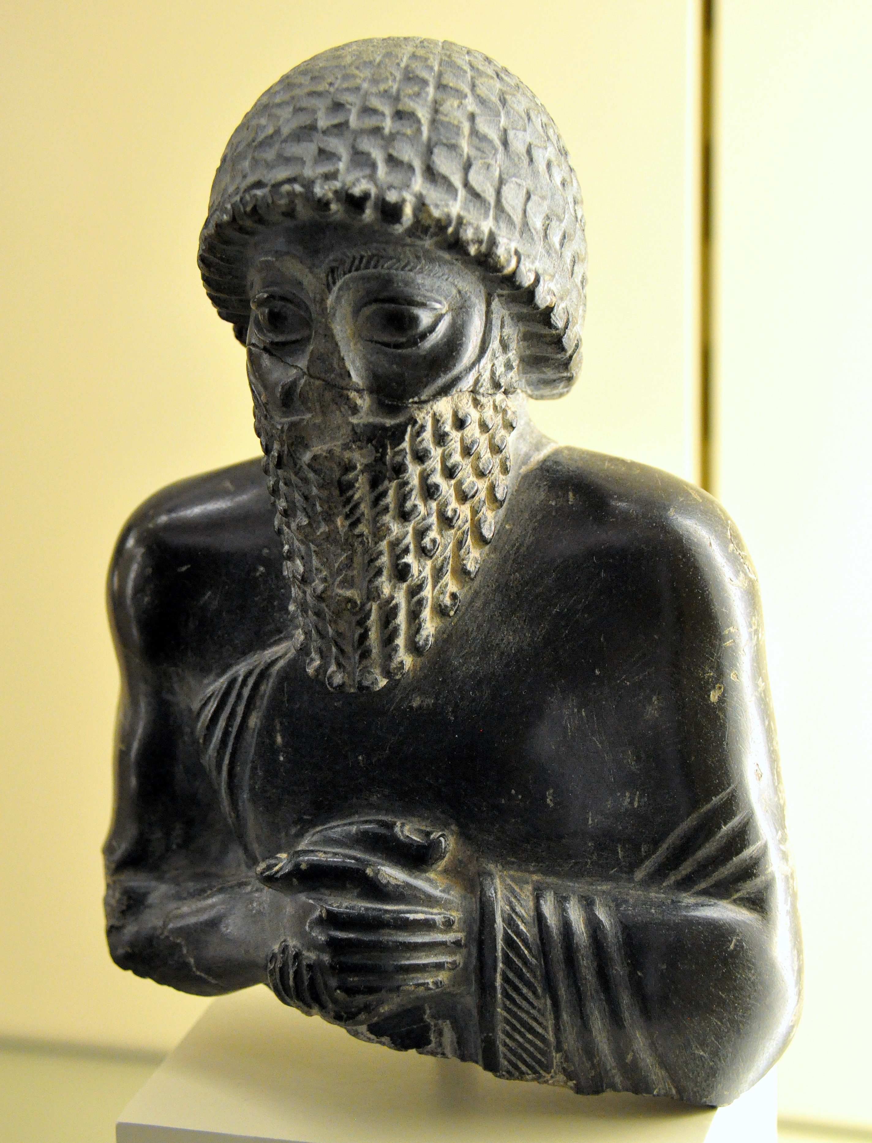 This is the upper part of a diorite statuette of Ur-Ningirsu (son of Gudea and priest-prince of Lagash), dedicated to god Ningizzida (the cuneiform inscription was carved on the back of the statuette). Ningizzida was the Sumerian god of the underworld and the guardian of the gate of heaven. C. 2117 BC. From Southern Mesopotamia, Iraq. The Pergamon Museum, Berlin, Germany. This statue has an inscription: "For Ningišzida, his (personal) god, Ur-Ningirsu, ruler of Laagaš, son of Gudea, ruler of Lagaš (broken) (Edzard 1997:185–186 E3/1.1.8.7).